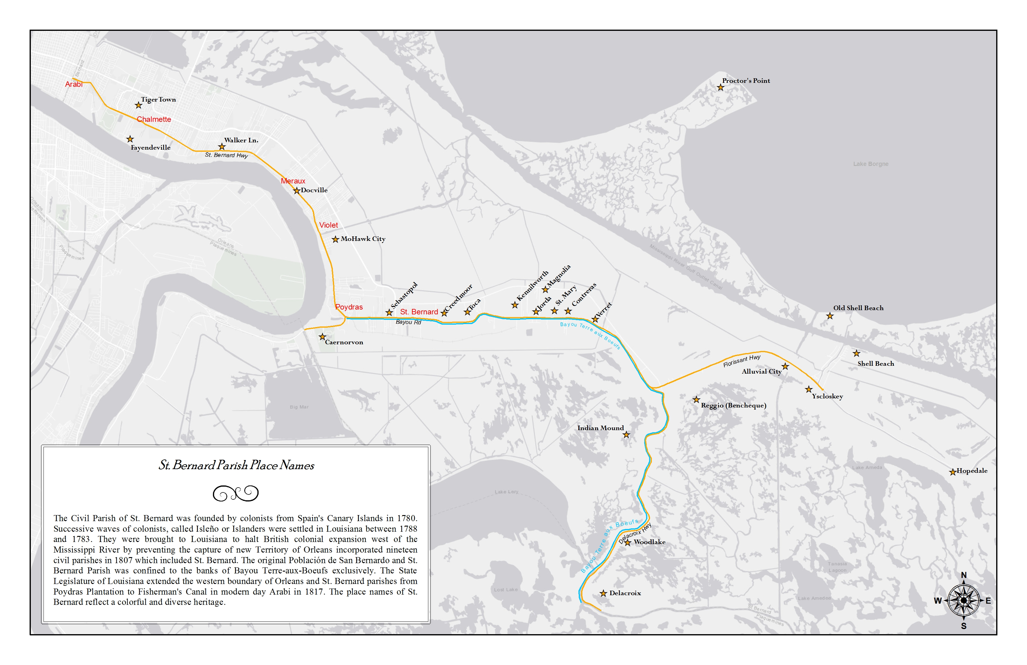 This map was created from an oral history interview of Philip Acosta. Phillip wanted to create a map for display in the Islenos museum to display old community names in Lower St Bernard Parish. Map shows distinct communities that have been merged into larger communities and the historical names associated with the areas.